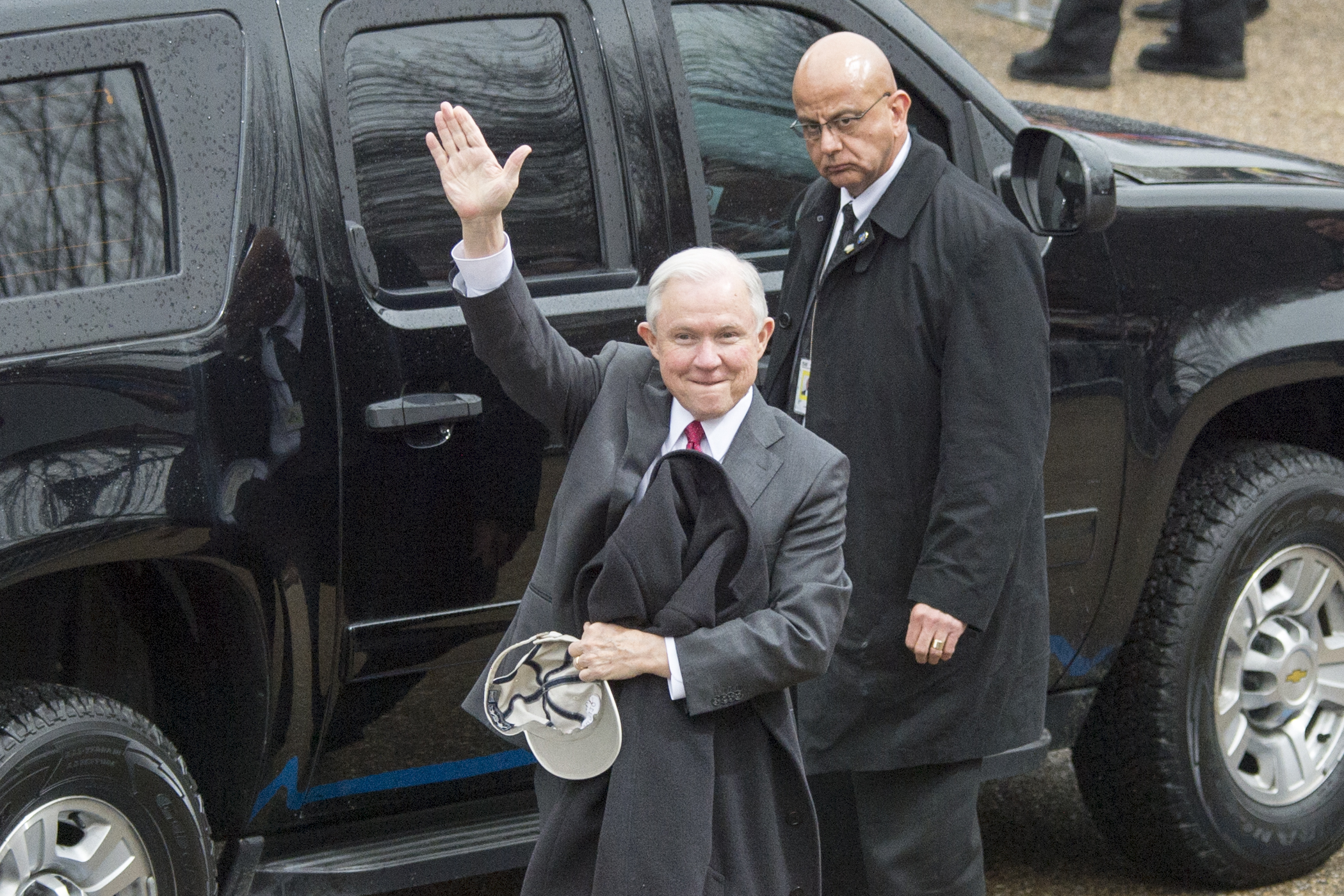 Senator Jeff Sessions arrives before the 58th Presidential Inauguration Parade at the White House reviewing stand in Washington D.C., Jan. 20, 2017. More than 5,000 military members from across all branches of the armed forces of the United States, including Reserve and National Guard components, provided ceremonial support and Defense Support of Civil Authorities during the inaugural period. (DoD Photo by Navy Petty Officer 2nd Class Dominique A. Pineiro/Released)